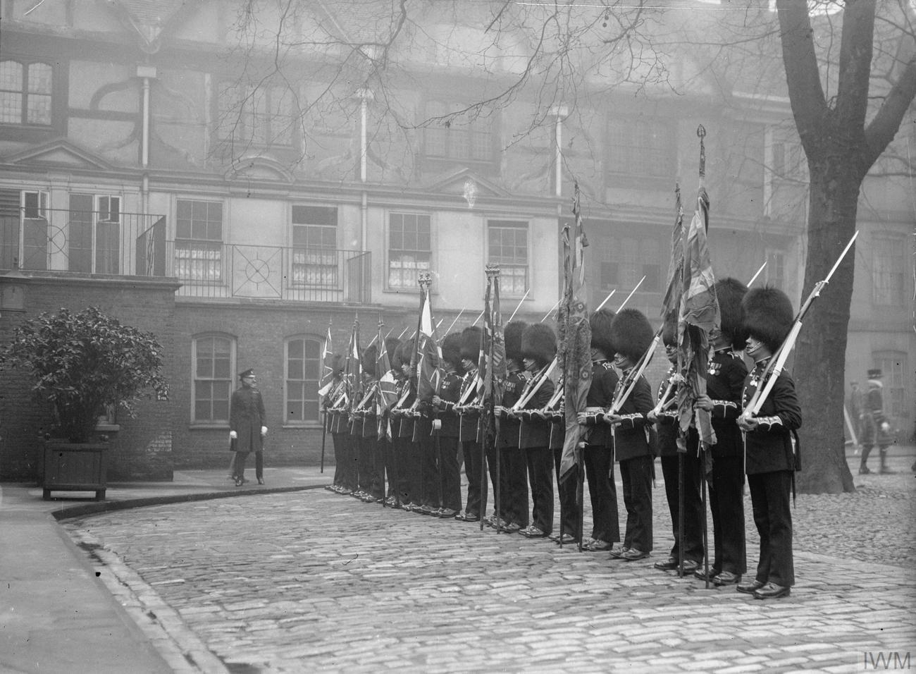 The British Army in the Interwar Period Ceremony of laying up of the colours of the Royal Munster Fusiliers at the Tower of London, 15 February 1923.